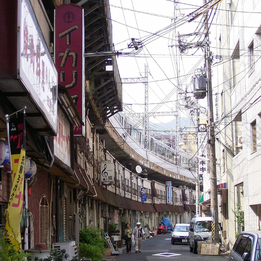 Motomachi shopping district under the railway elevation, aka "Moto-Ko 7th district", in Kobe, Japan.